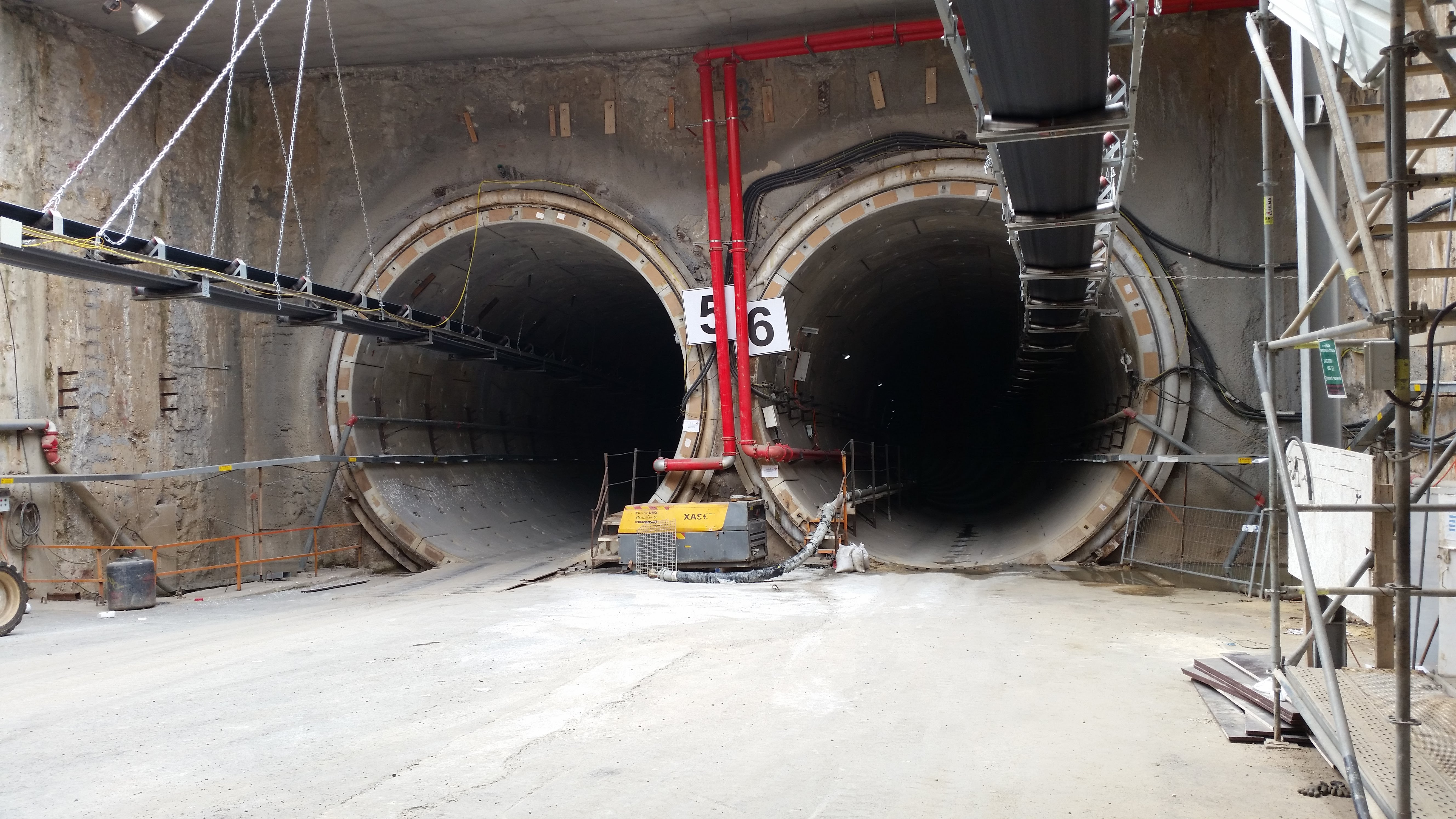 Tel Aviv Light Rail Red Line Kiryat Arie Tunnel Portal